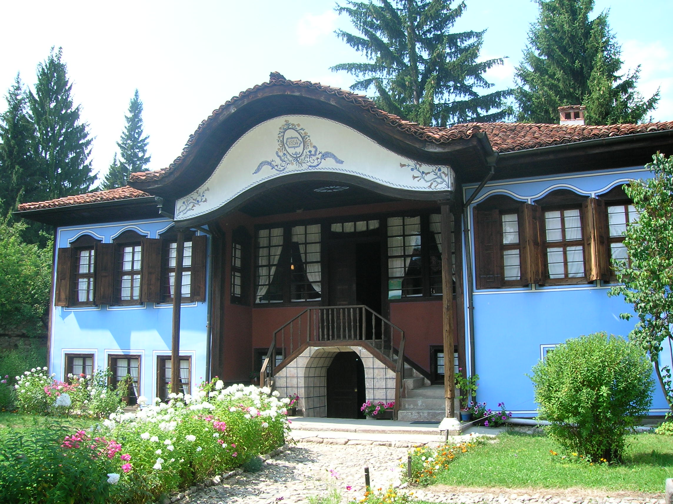 Lyutov House, in Koprivshtitsa (Bulgaria).